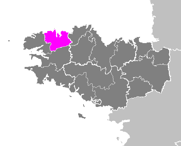 Maps of arrondissements and cantons of France: Arrondissement de Morlaix.PNG